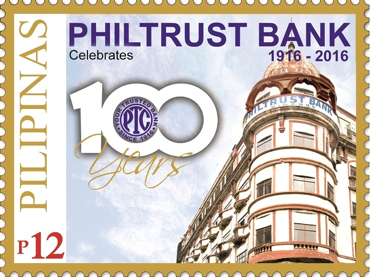 Philtrust Bank Centennial Stamps